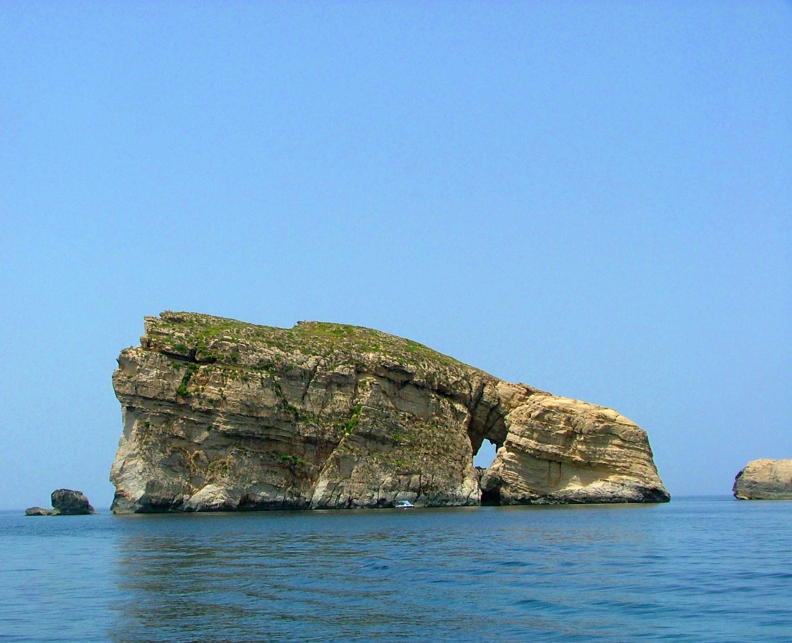 Fungus Rock's Front View Photo: Arnold Sciberras